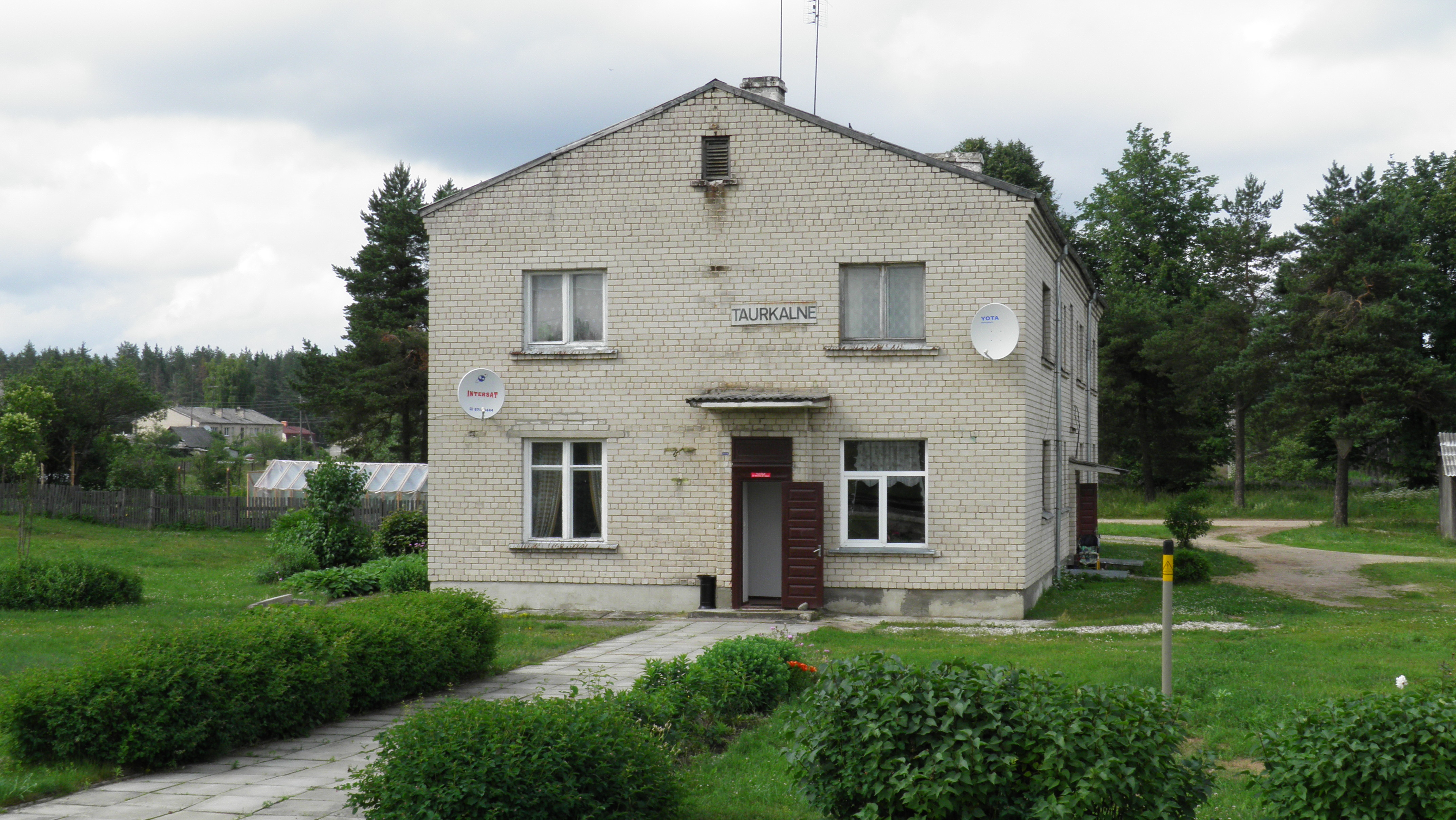 train station